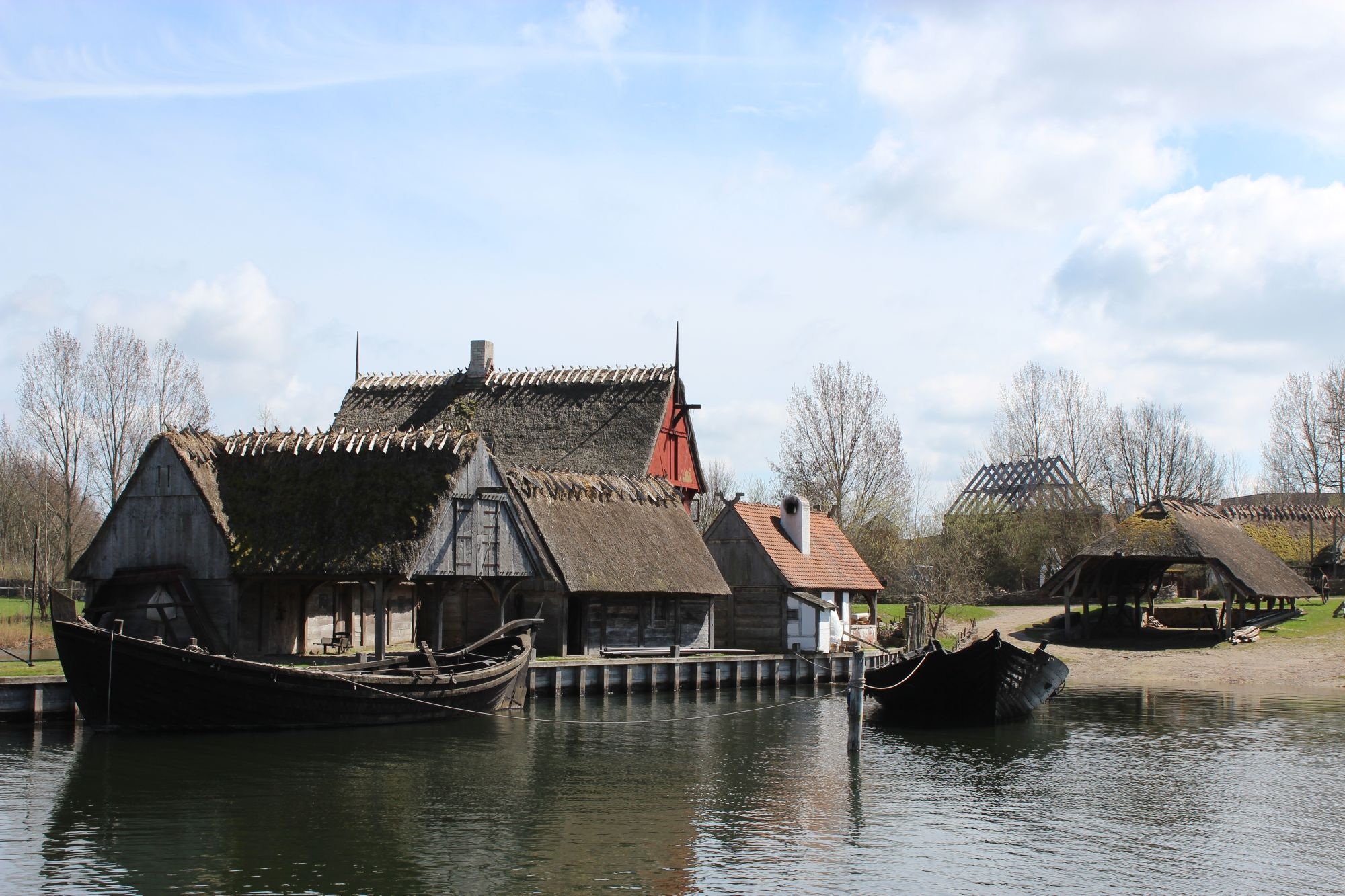 Bredfjedskibet - a ship found near Rødby on Lolland, Denmark - and Gedesbyskibet found near Gedesby on Falster. Both are reconstructions at Middelaldercentret near Nykøbing Falster.